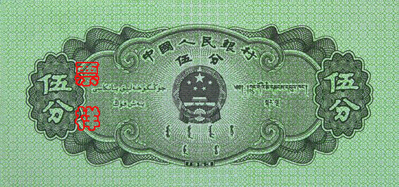 Back of second series 5 fen renminbi